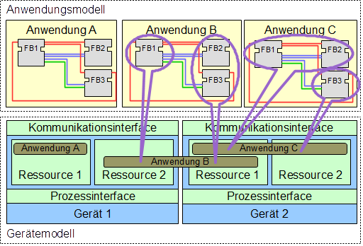 IEC 61499 application and device model